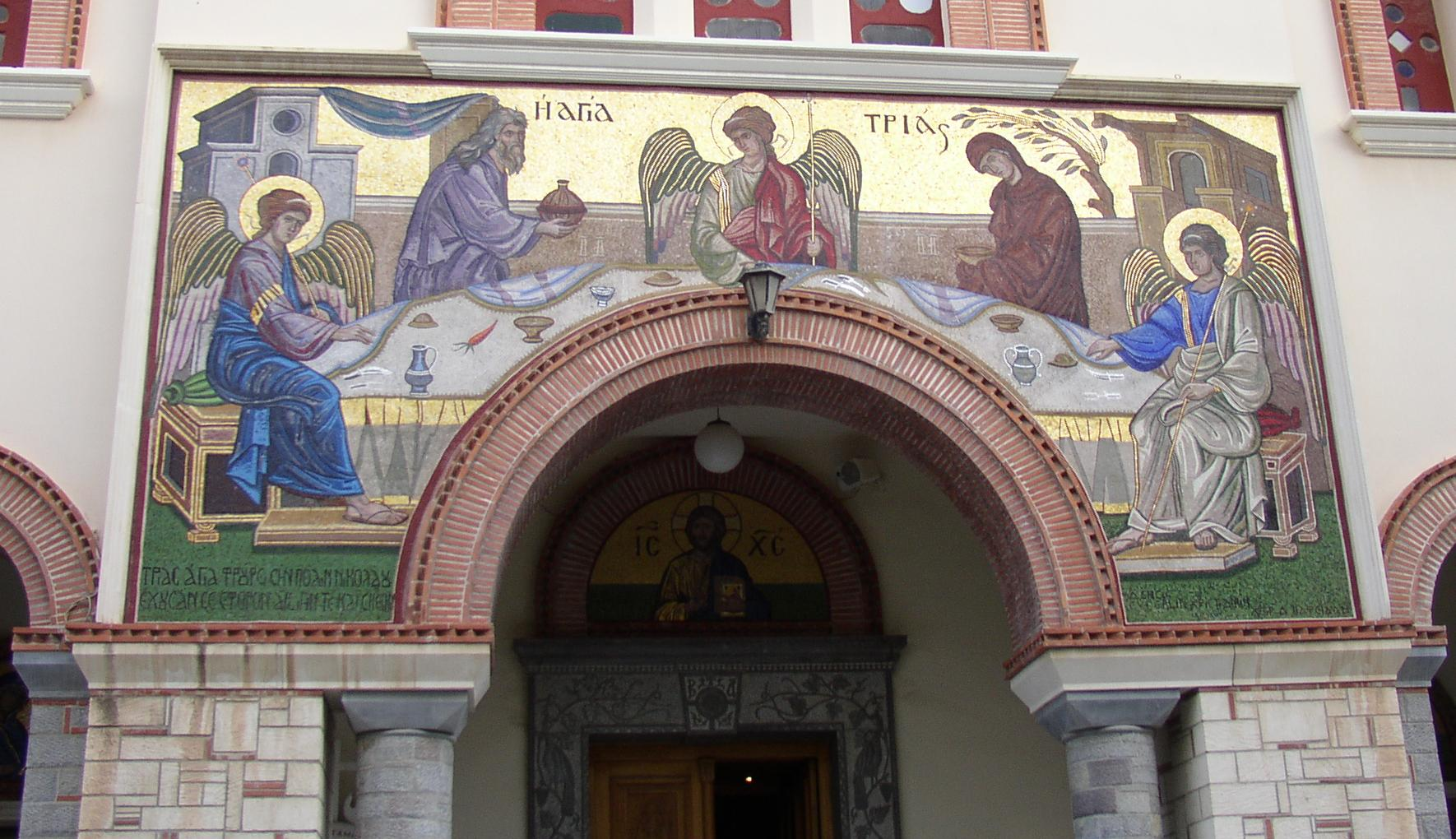 Church in Agios Nikolaos, Crete, Greece